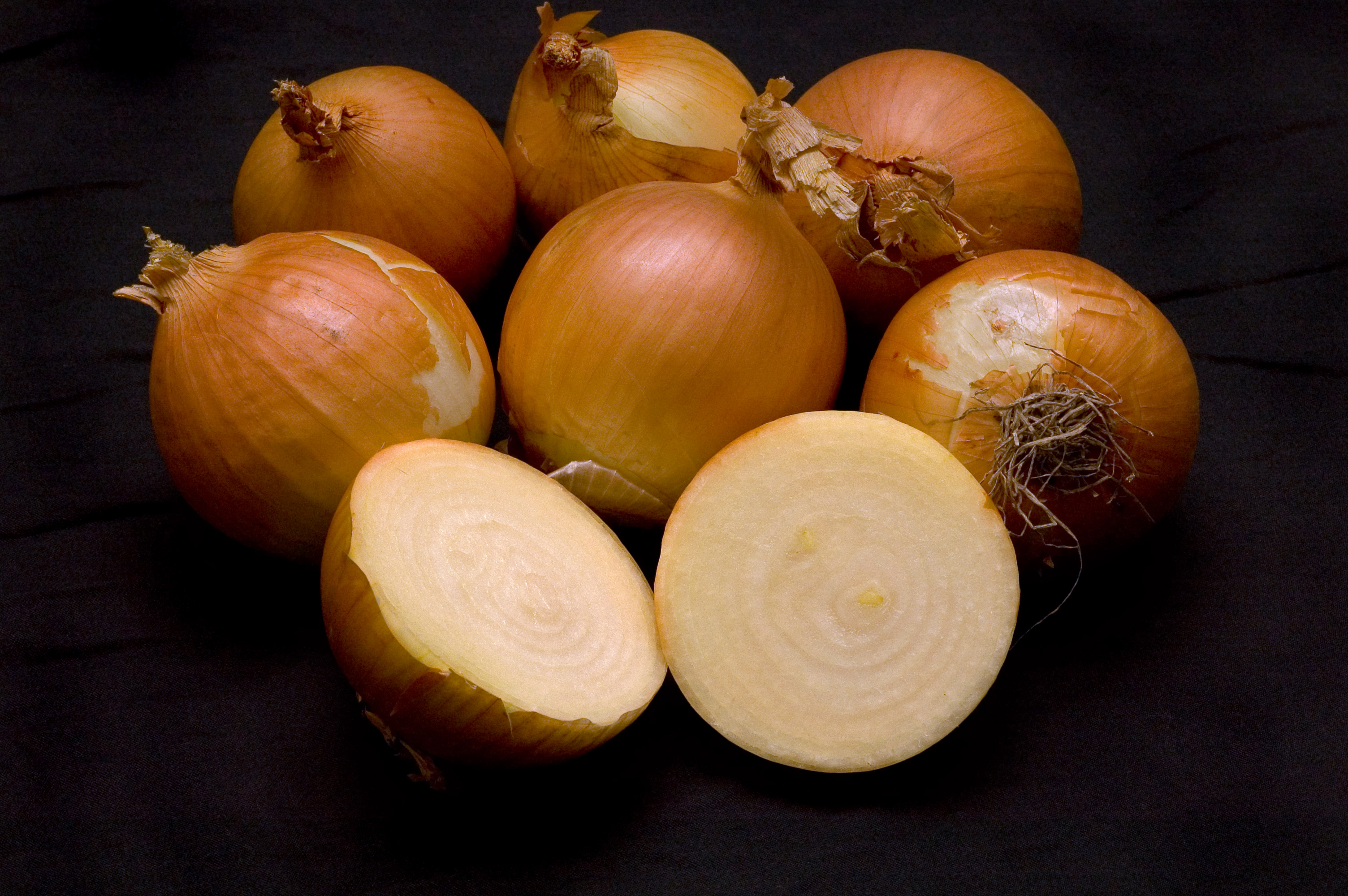 Yellow onions with cross section. Photo taken by Andrew c. Metadata Cam Nikon D70 Lens: AF Micro Nikkor 60 mm f/2.8D Flash: Fired (bounce) Date: 17/10/2006